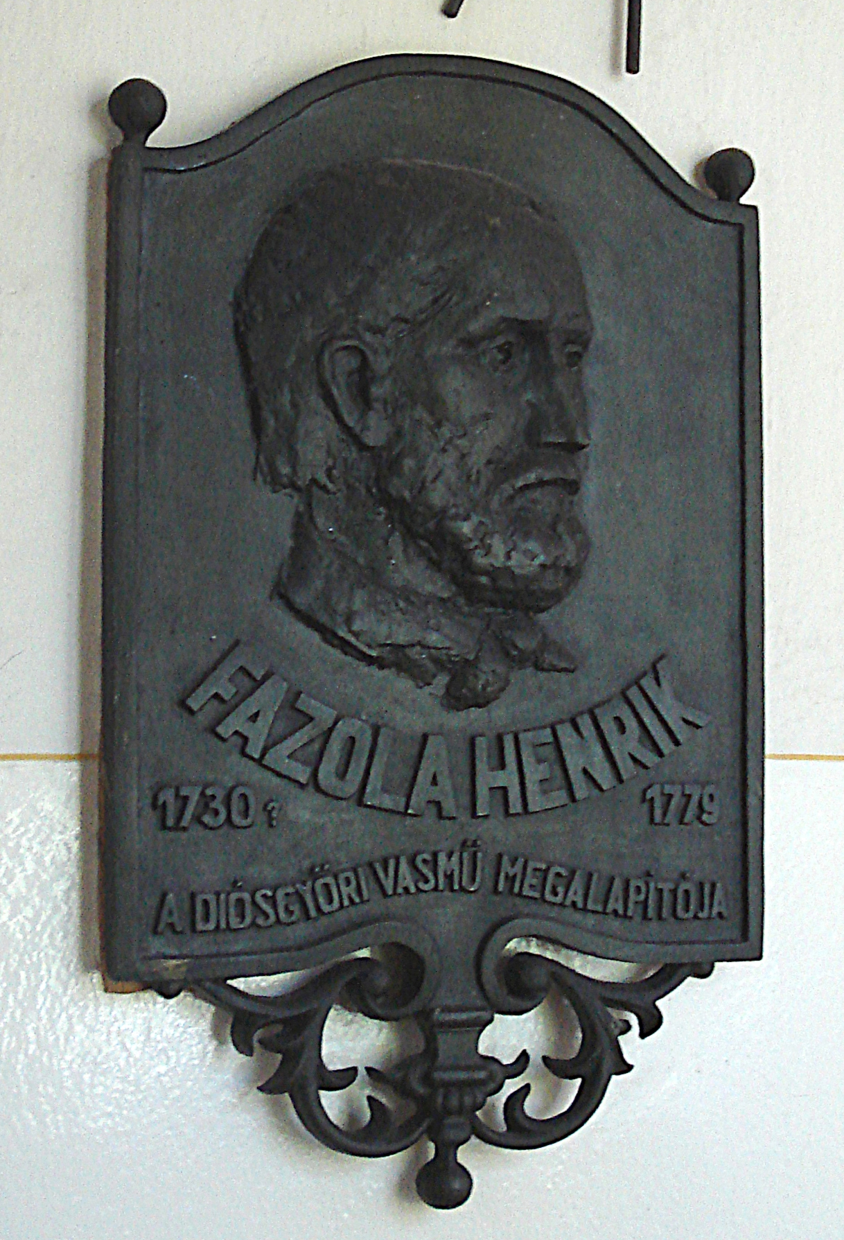 Relief of Henrik Fazola, sculptor: Éva Varga. Primary school, 3 Téglagyári street, Diósgyőr-Vasgyár, Miskolc, Hungary.